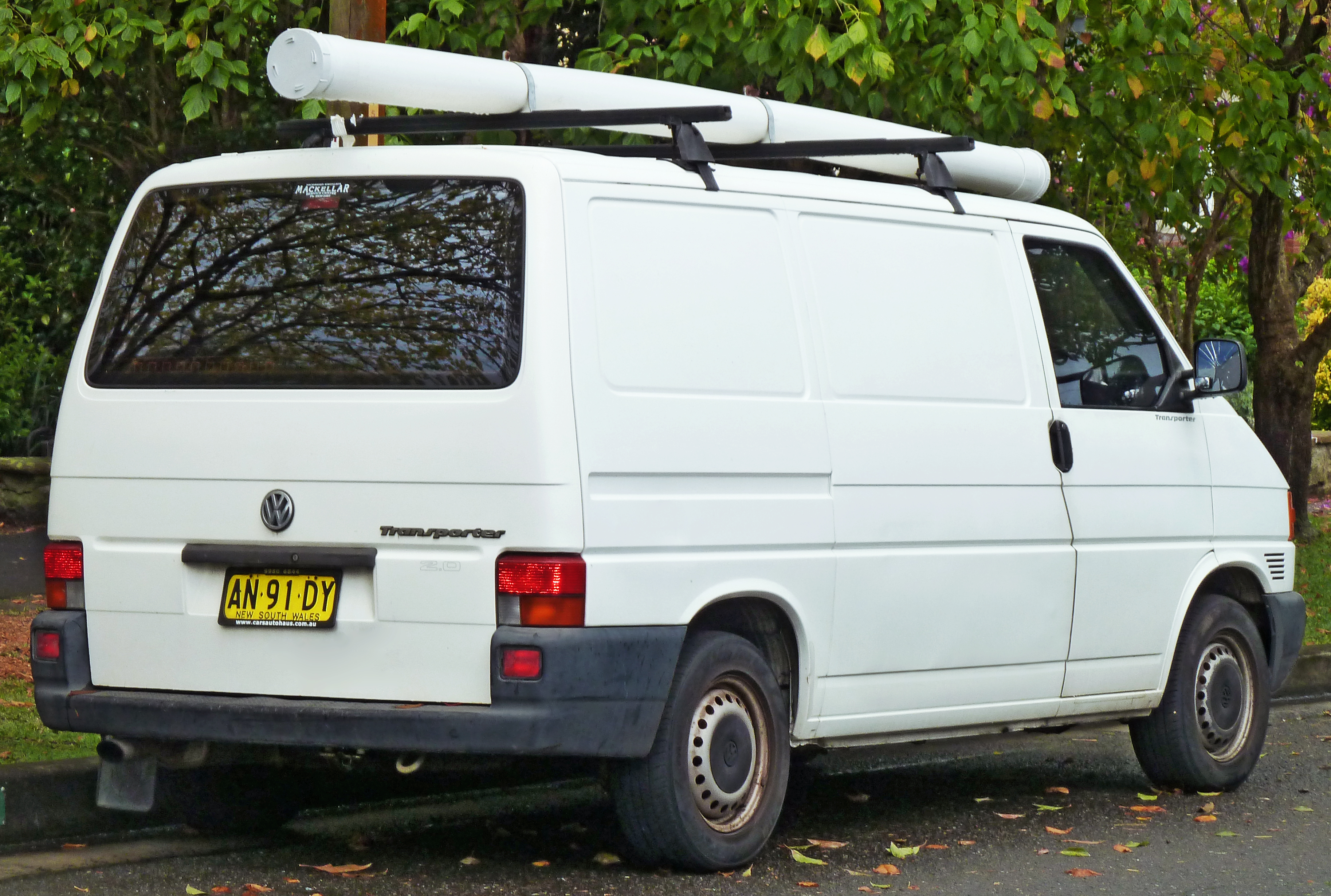 1999 Volkswagen Transporter (70) 2.0 SWB van. Photographed in Roseville, New South Wales, Australia.